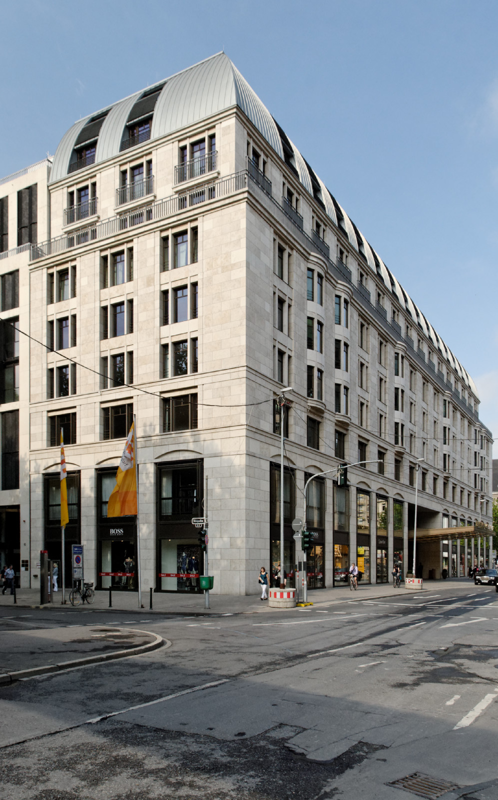 Breidenbacher Hof in Düsseldorf-Stadtmitte, Germany